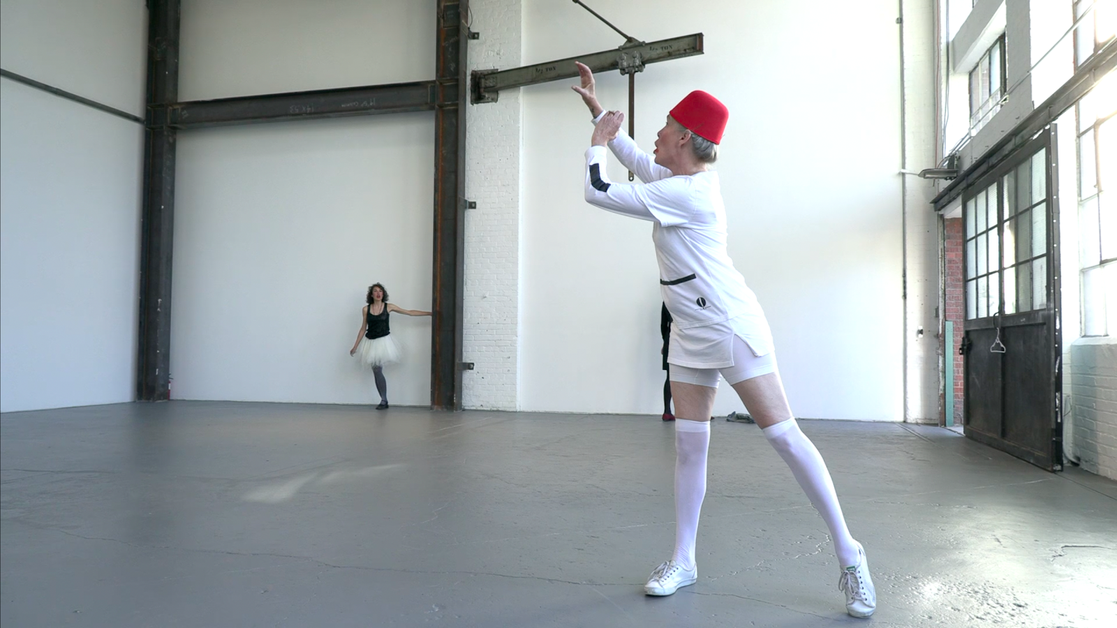 Dead Sometimes, Performance at Space 124, Project Artaud, San Francisco, CA June 2018